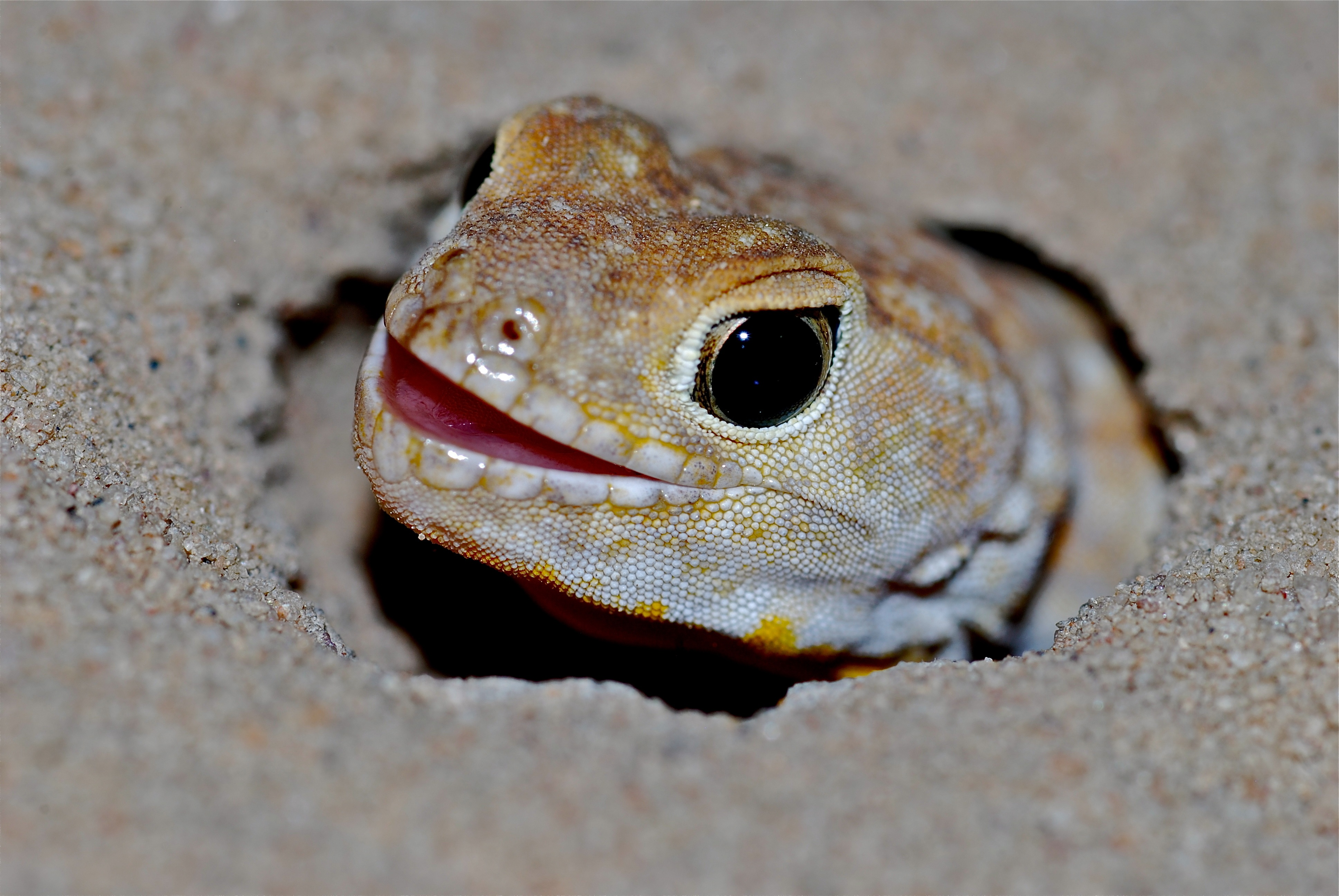 Nossob Camp, Kgalagadi Transfrontier Park, SOUTH AFRICA